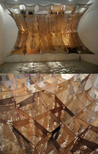 By Maria Ezcurra